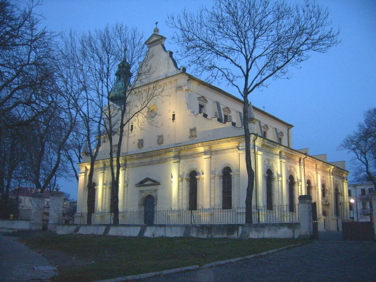 Cathedral in Zamość